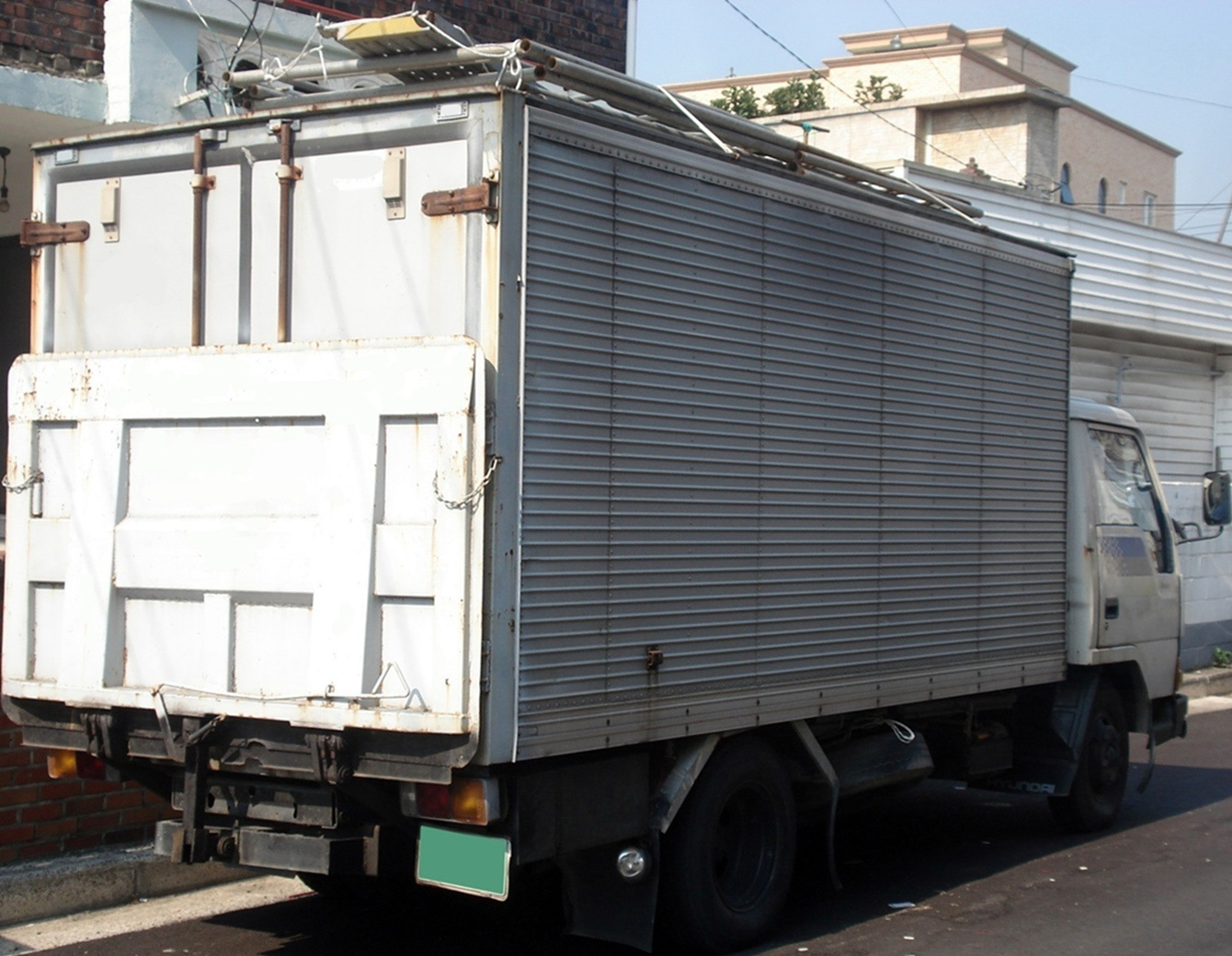 Hyundai Mighty